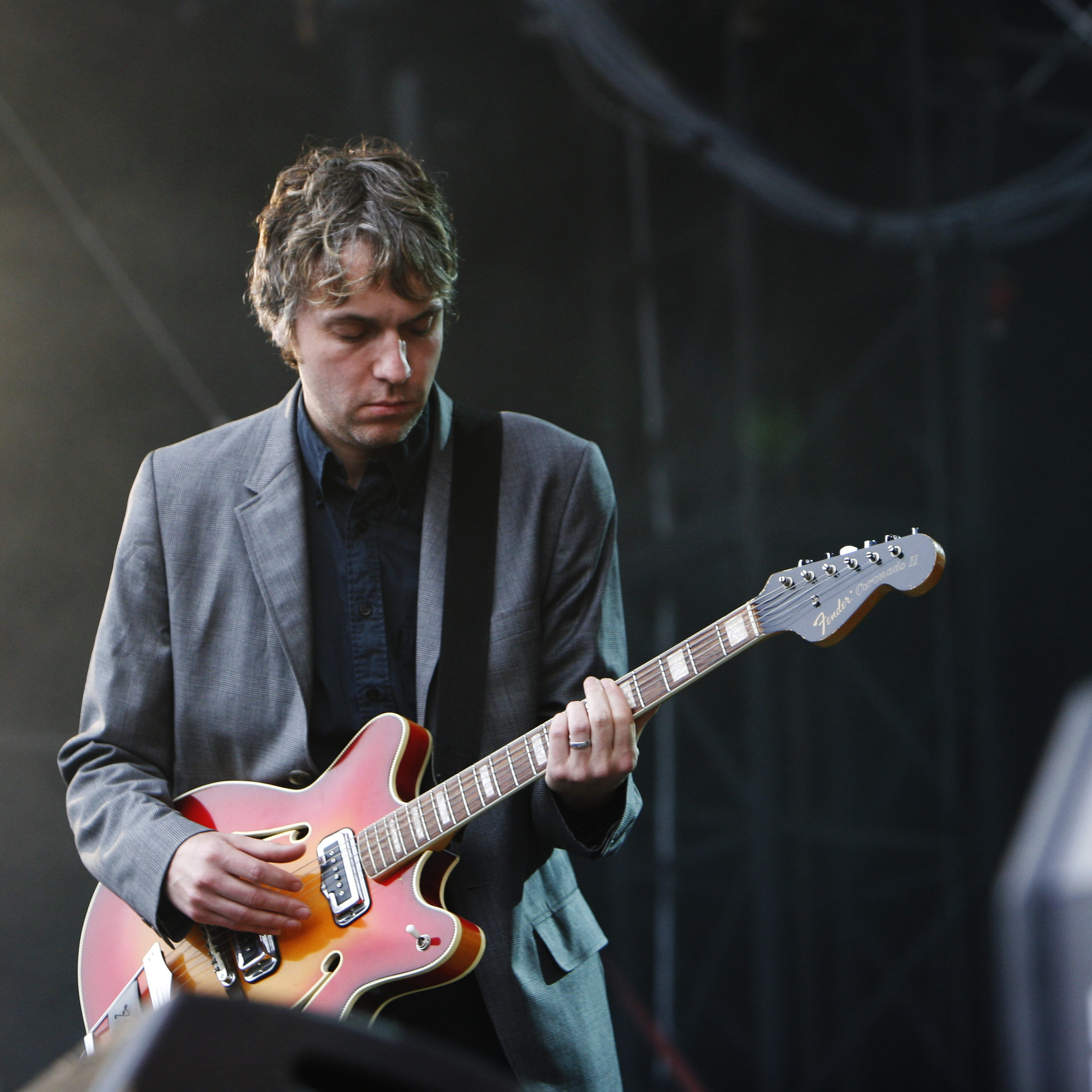 Simon Tong at the Eurockéennes of 2007 Fender Coronado II